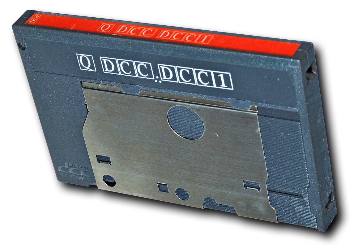 The rear (shutter-side) of a pre-recorded Digital Compact Cassette.